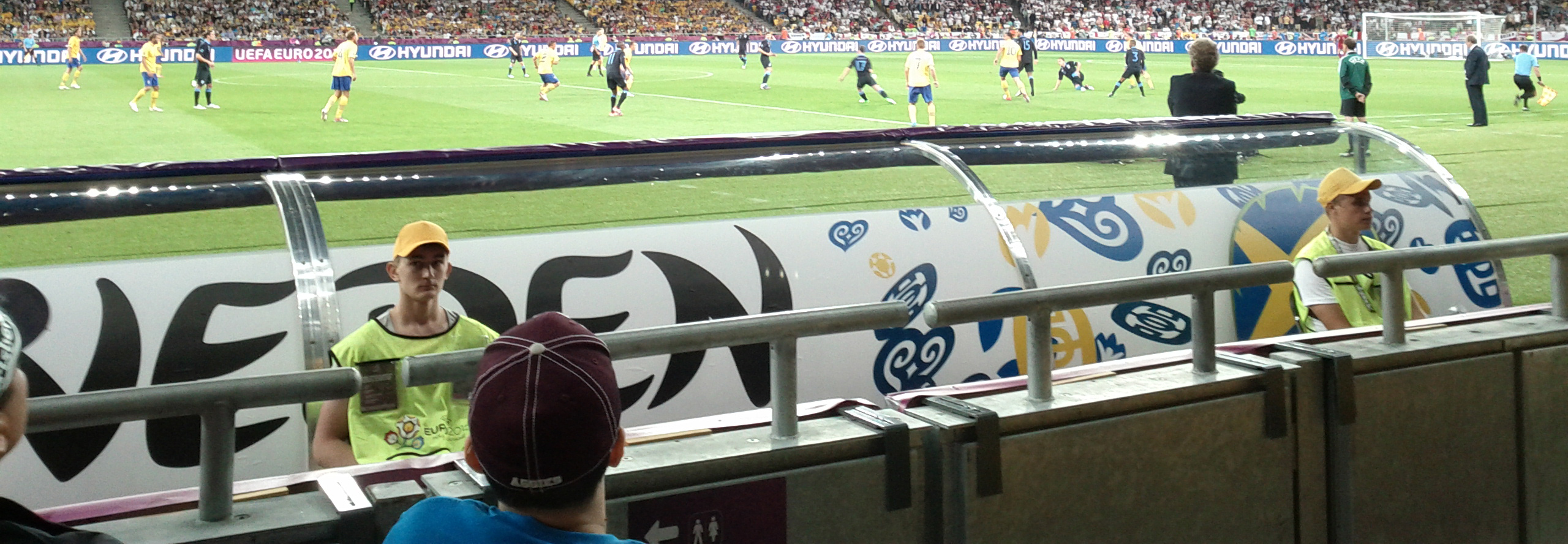 UEFA Euro 2012 match between Sweden and England